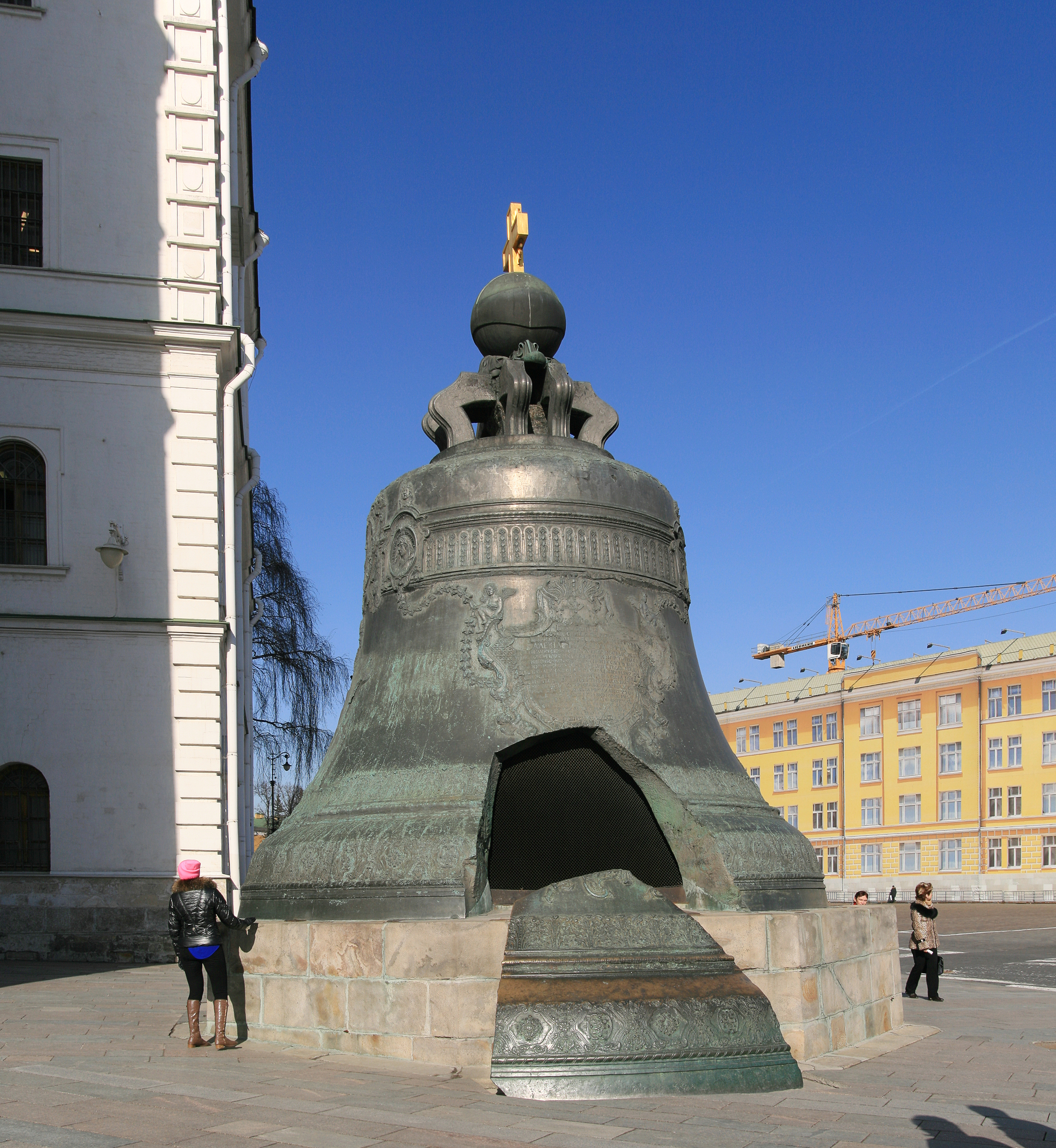 Moscow Kremlin, Tsar Bell